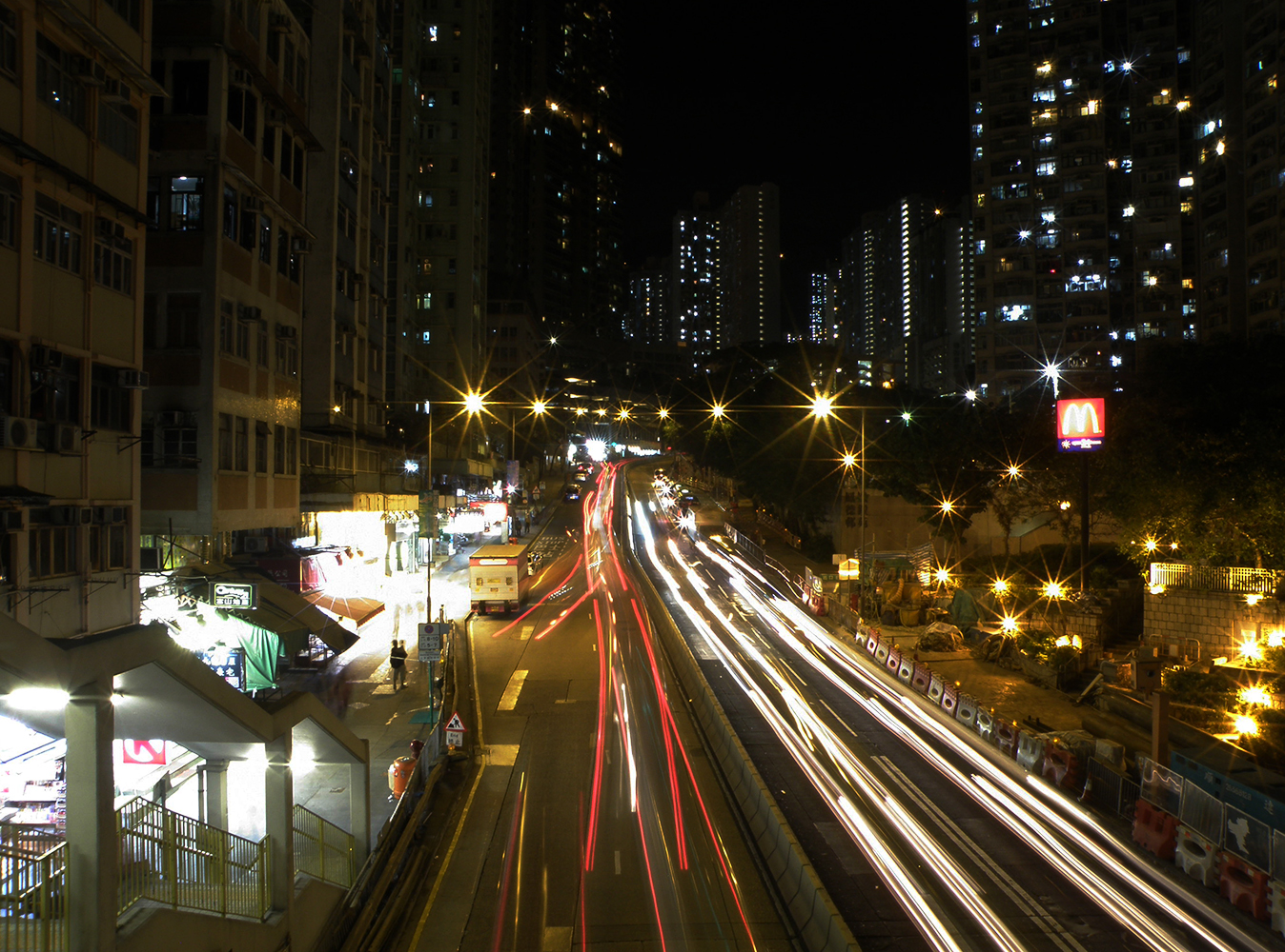 Po Kong Village Road in Diamond Hill, Hong Kong.